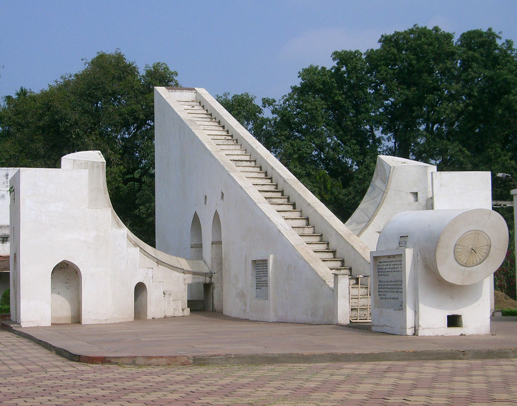 " Sun Dial "Jantar Mantar at the Ved Shala (Observatory), Ujjain